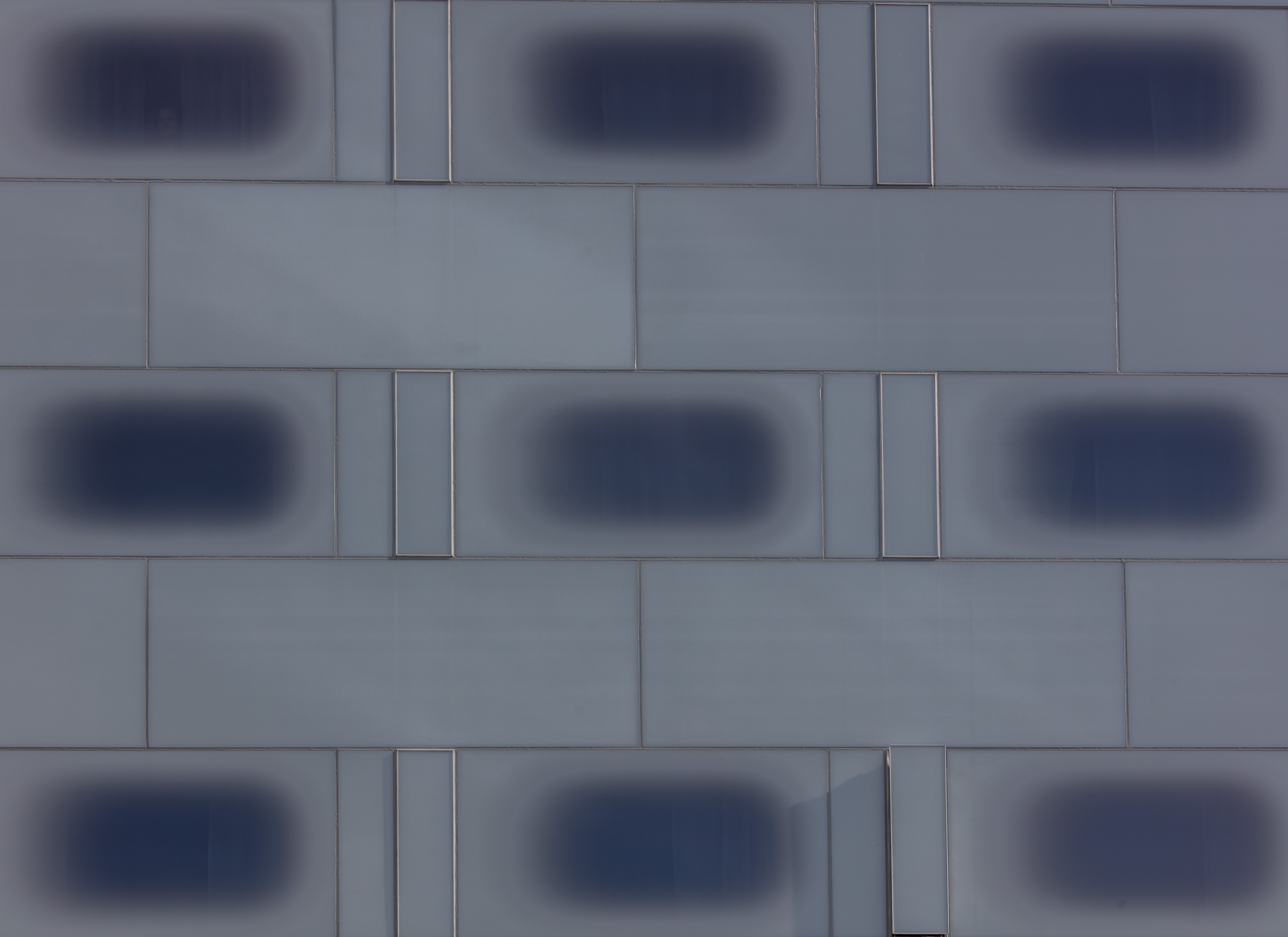 Building at Brattørkaia 9, Trondheim, Norway